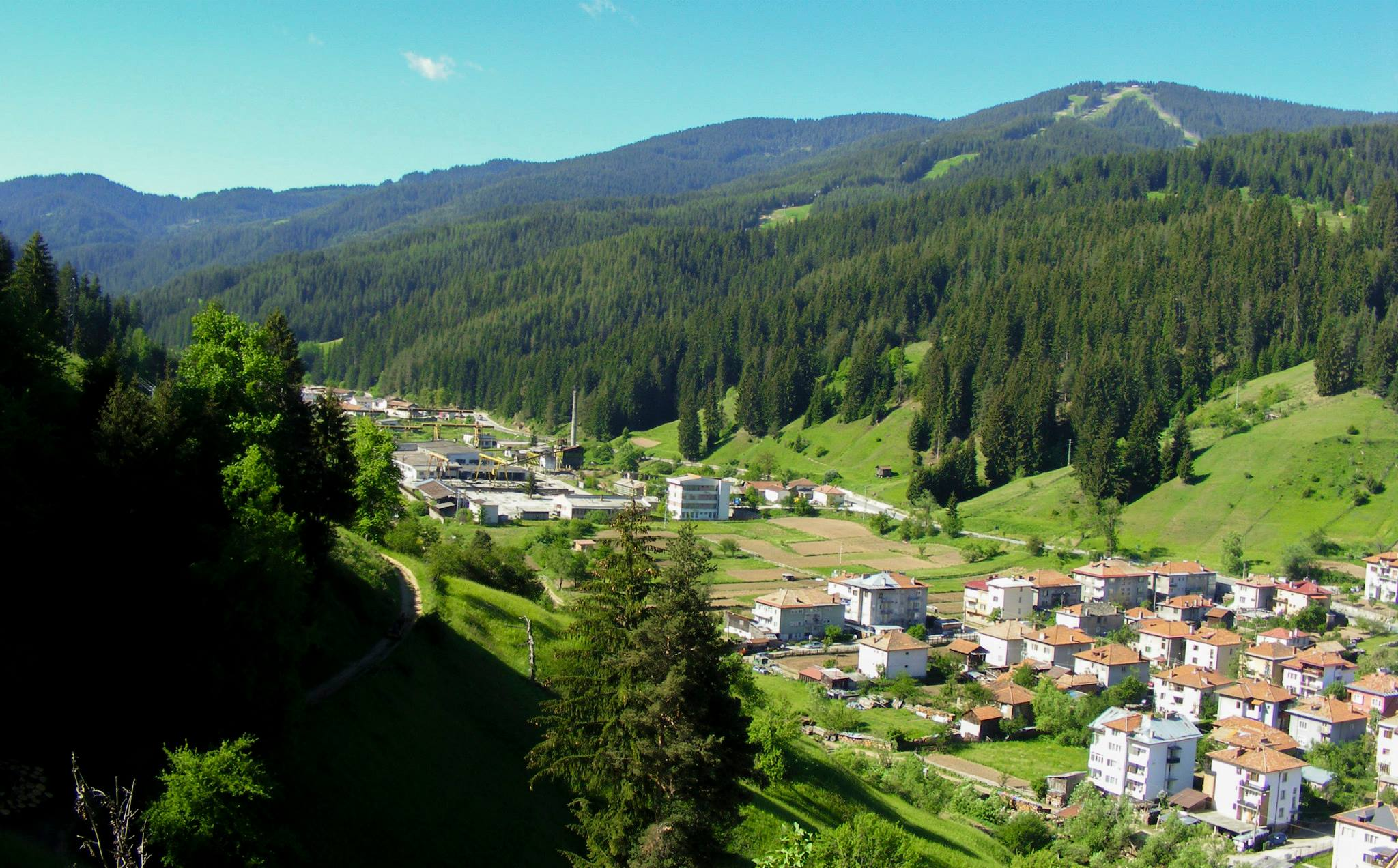 Chepelare